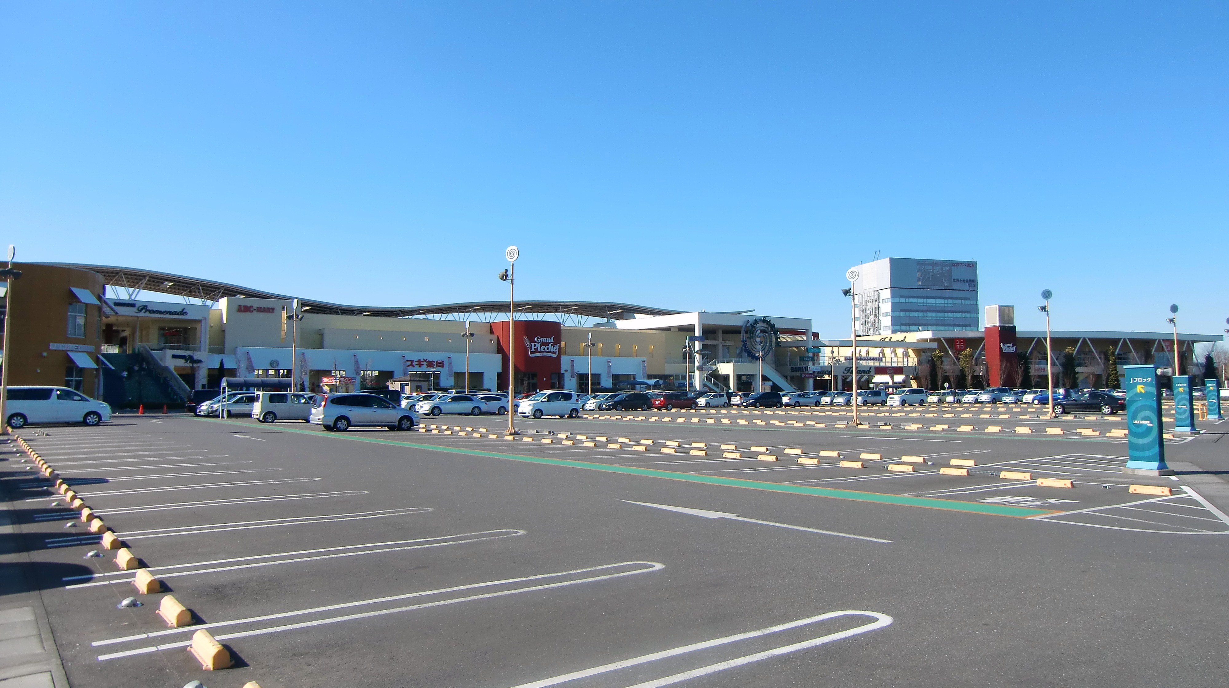 Mitsui shopping park "LALA GARDEN TSUKUBA" in Onozaki, Tsukuba city, Ibaraki prefecture, Japan.